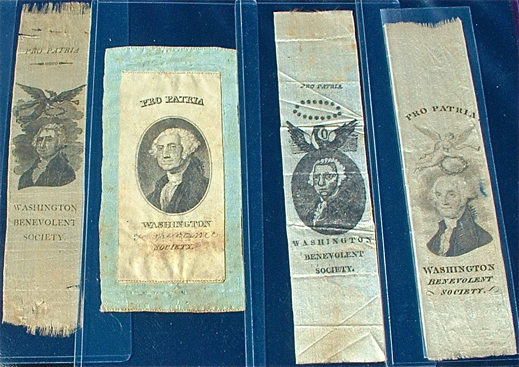 Washington Benevolent Society Member Ribbons